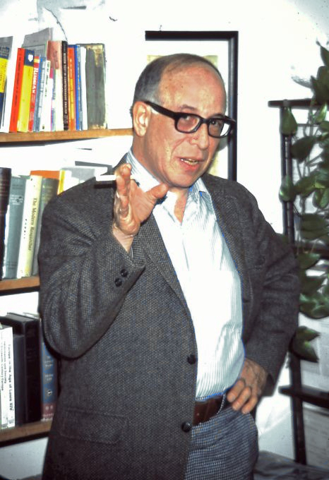 The avionics journalist and prominent UFO skeptic, Philip J. Klass, taken in 1977.